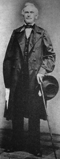 Full length photo of Book of Mormon witness David Whitmer by R. B. Rice in 1864.